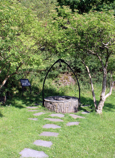 St Olavs Well